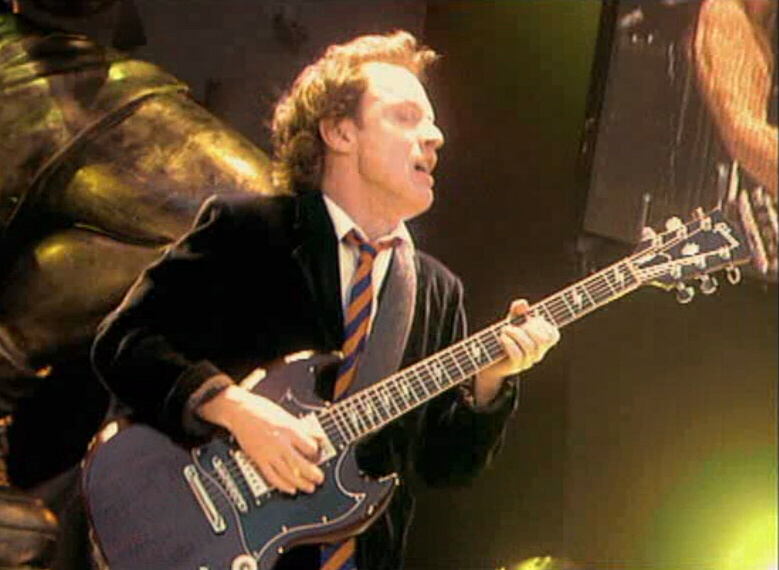 Angus Young, lead guitarist of the hard rock band "AC/DC" Made June 2001, Munich, Germany